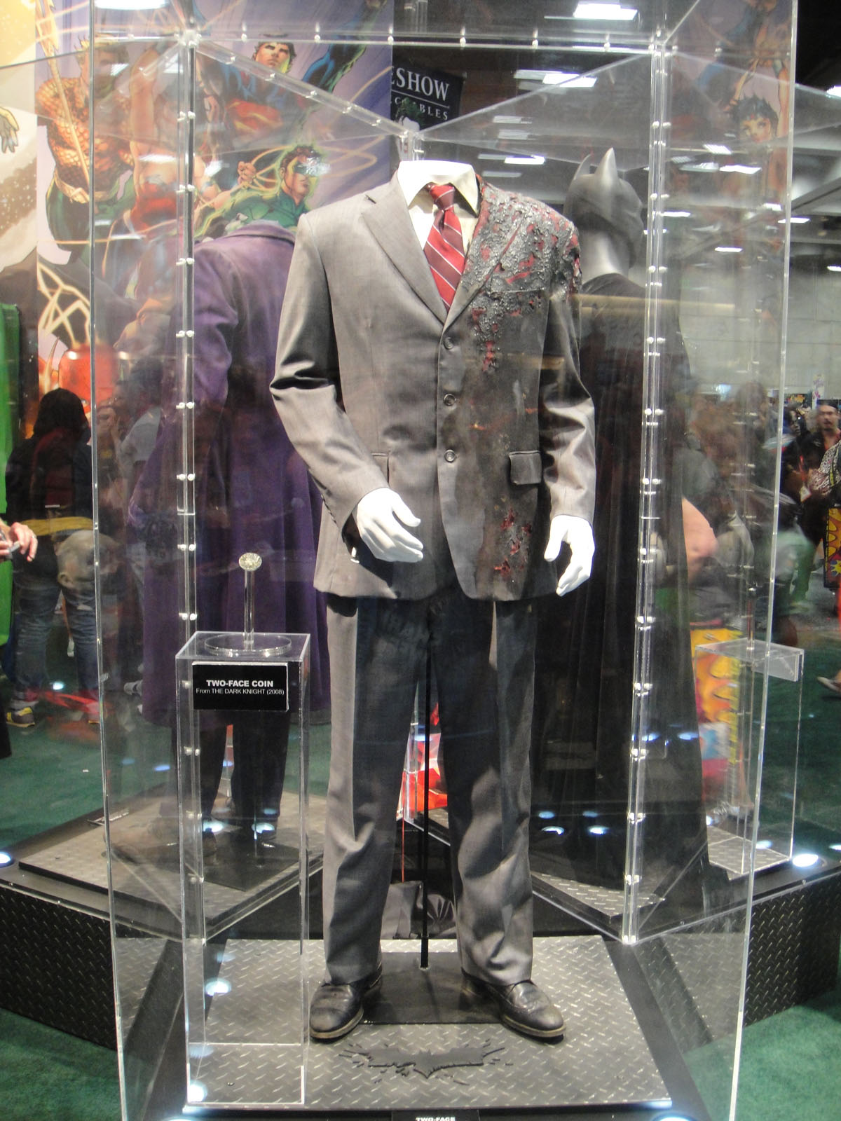 Two-Face suit from the film The Dark Knight displayed at the 2011 Comic-Con International.